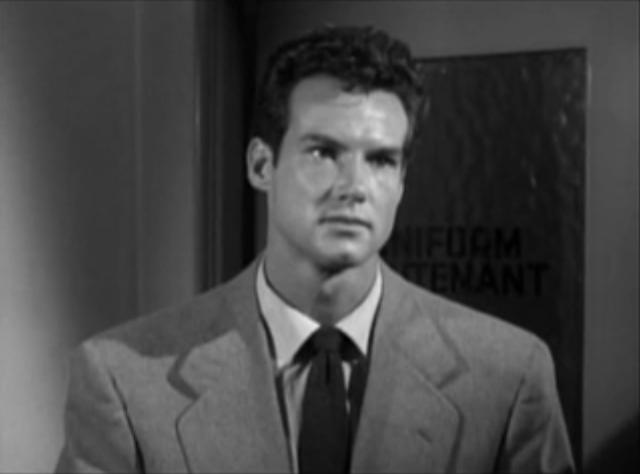 Steve Reeves as Lt. Bob Lawrence in Jail Bait